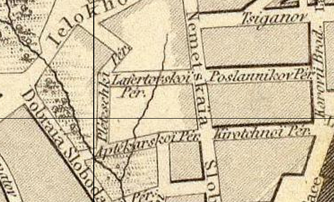 Kukuj stream in Nemetskaya Sloboda in old Moscow